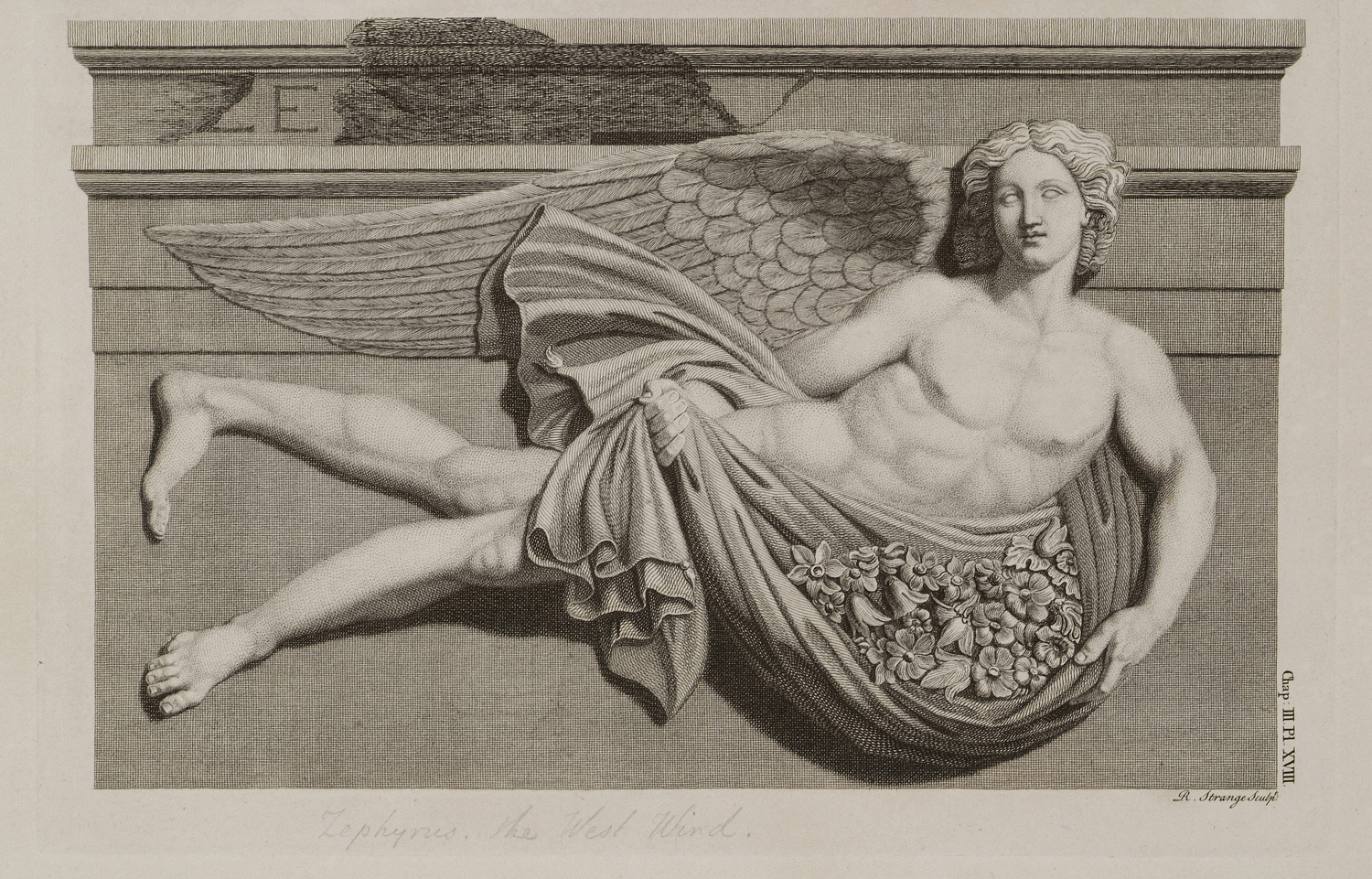 James Stuart & Nicholas Revett. The Antiquities of Athens measured and delineated by James Stuart F.R.S. and F.S.A. and Nicholas Revett Painters and Αrchitects, vol. III (ed. Willey Reveley), London, John Nichols, 1794